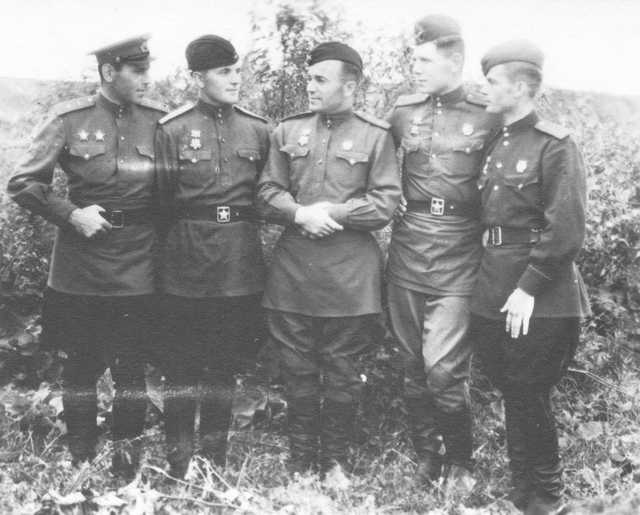 Officers at the 43rd Soviet FAR.